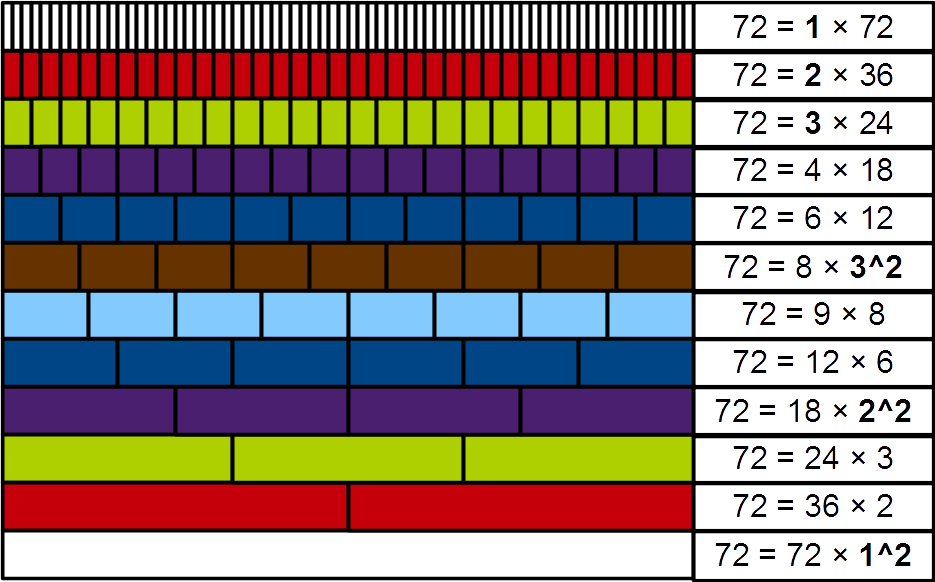 Showing, through Cuisenaire rods, that 72 is a powerful number, and also an Achilles number.